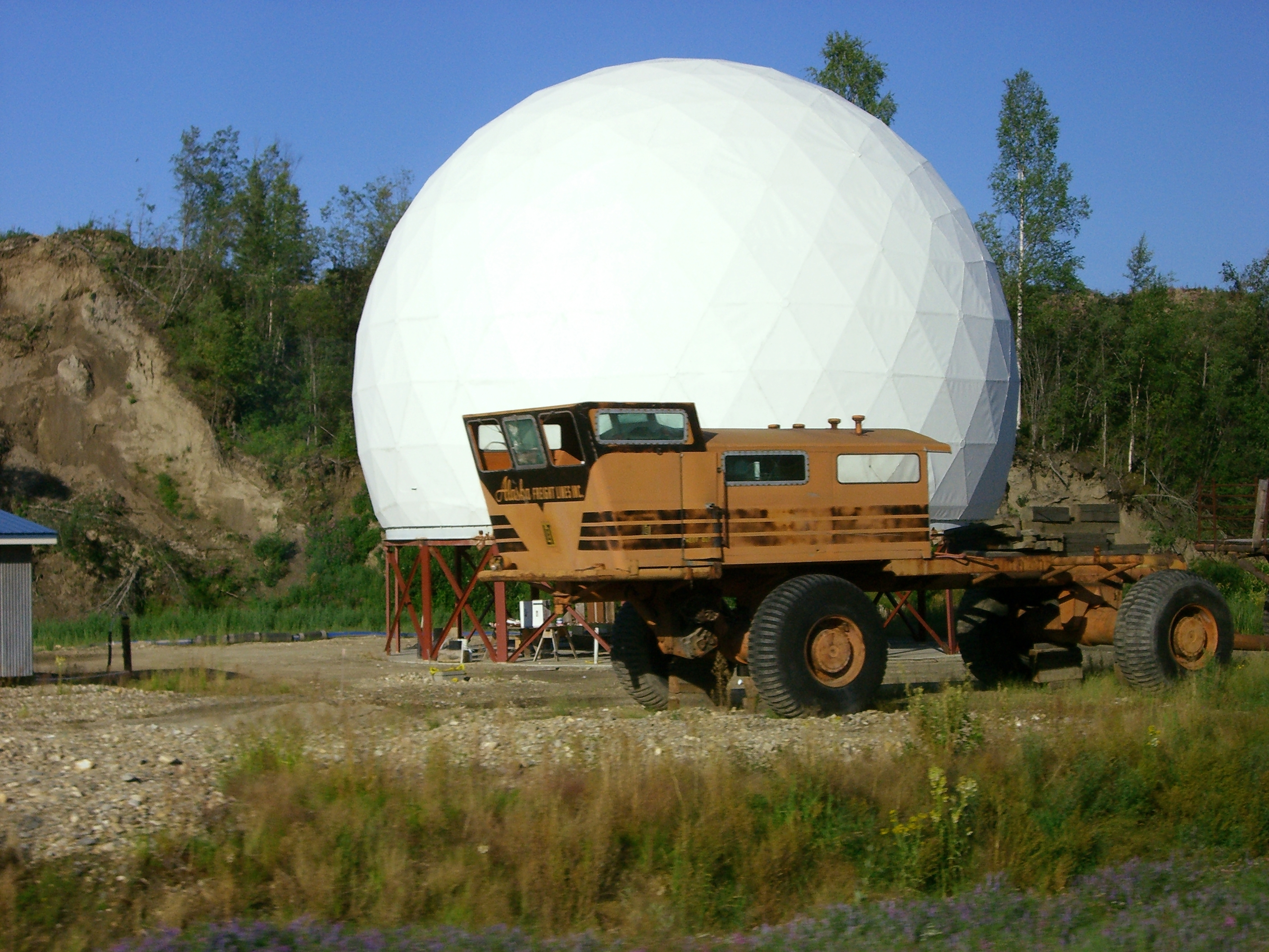 Taken 25 Jul 2007 near Fairbanks AK.